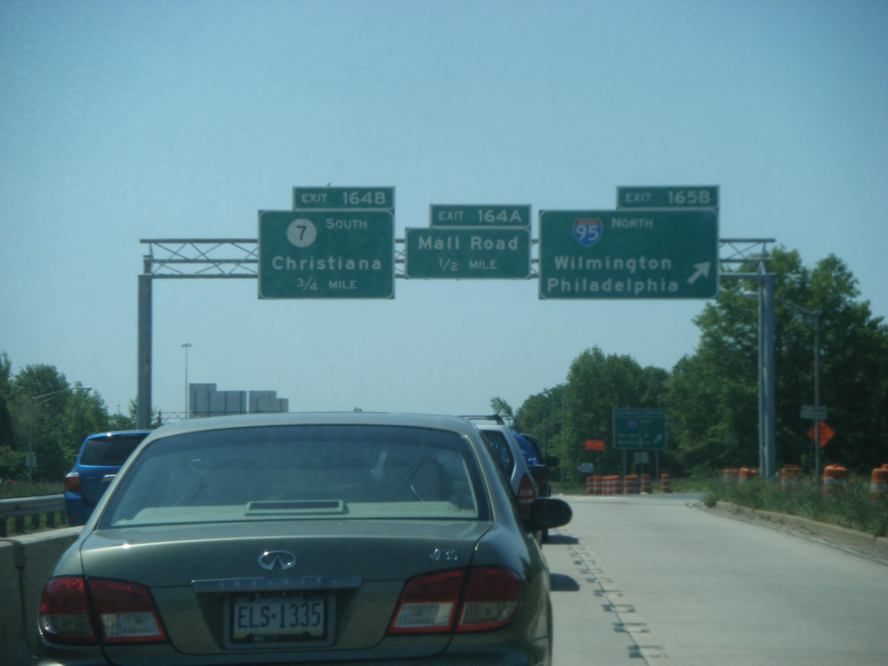 Southbound Delaware Route 1/Delaware Route 7 at exit for northbound Interstate 95/Delaware Turnpike (exit 165B) in Christiana, Delaware.